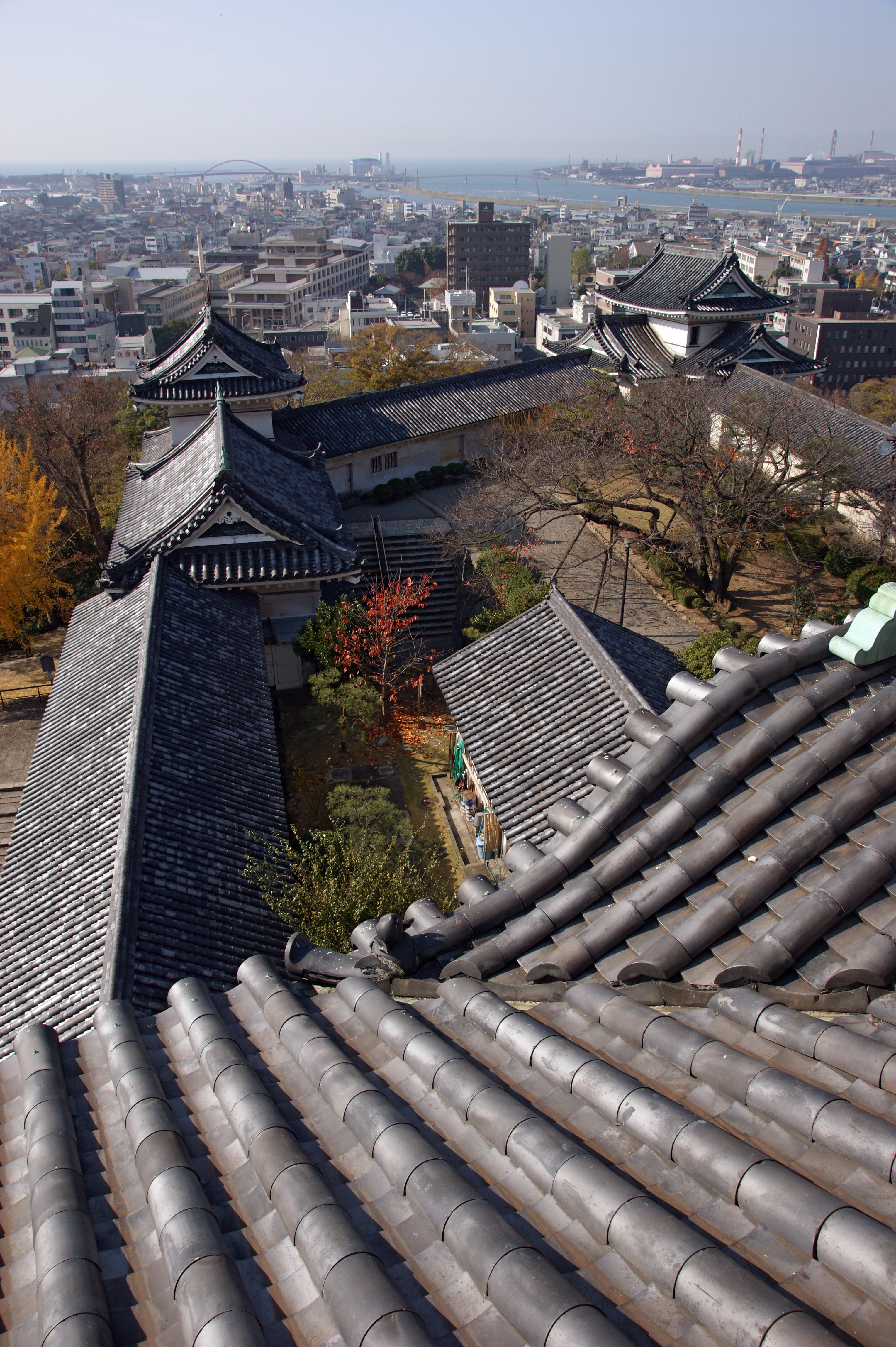 Wakayama Castle, Wakayama, Wakayama prefecture, Japan